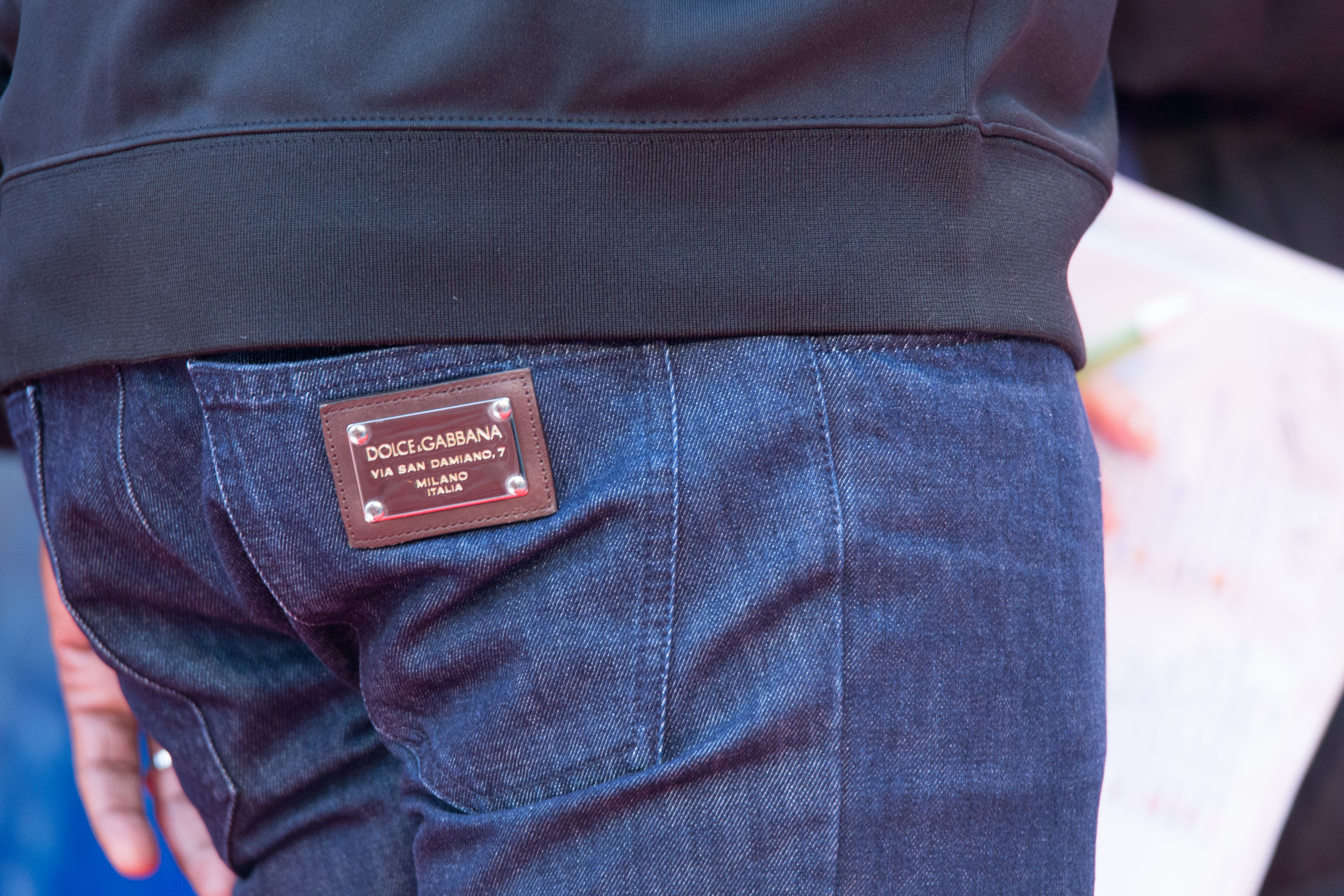 AEROFLOT ManchesterUnited TrophyTour